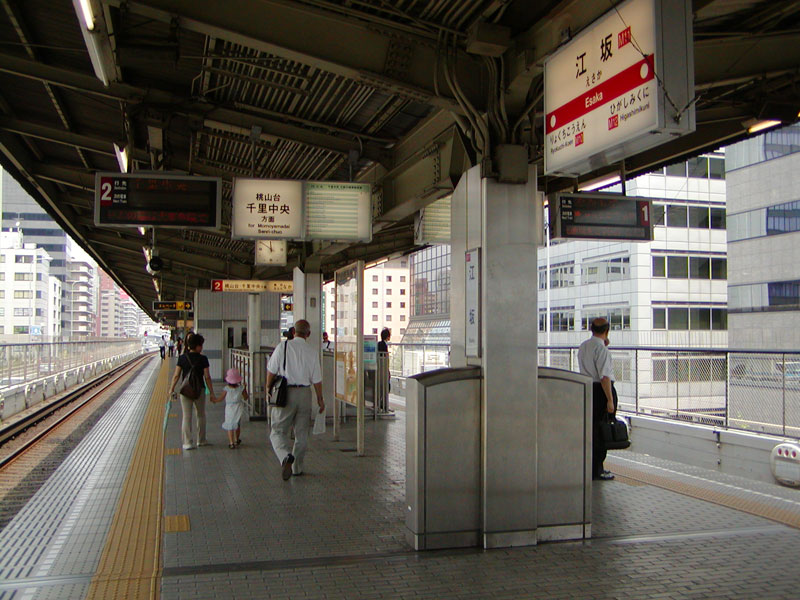 Esaka Station